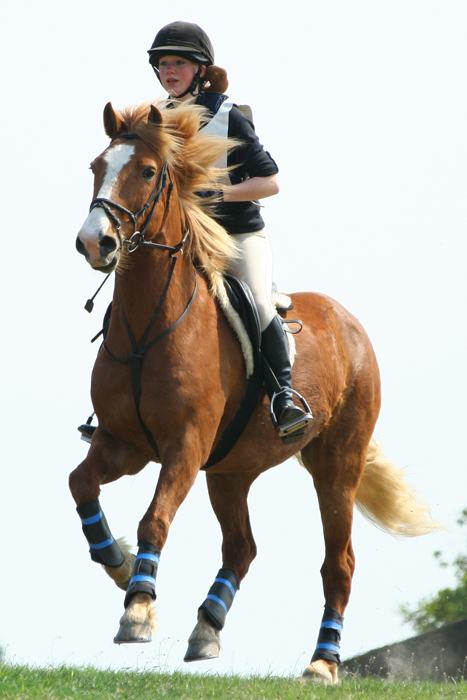 Cantering over the brow of a hill